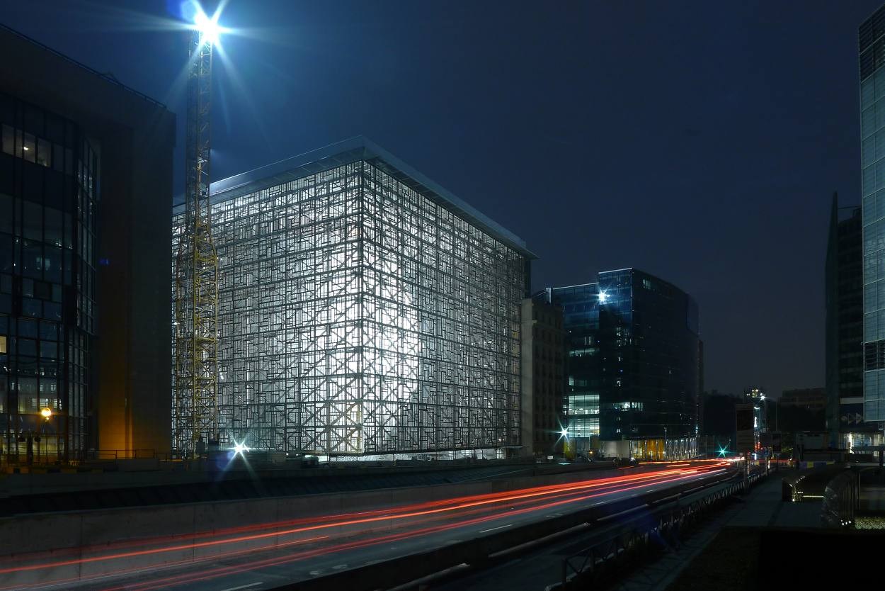 Night shot of the Europa building under construction from February 2016